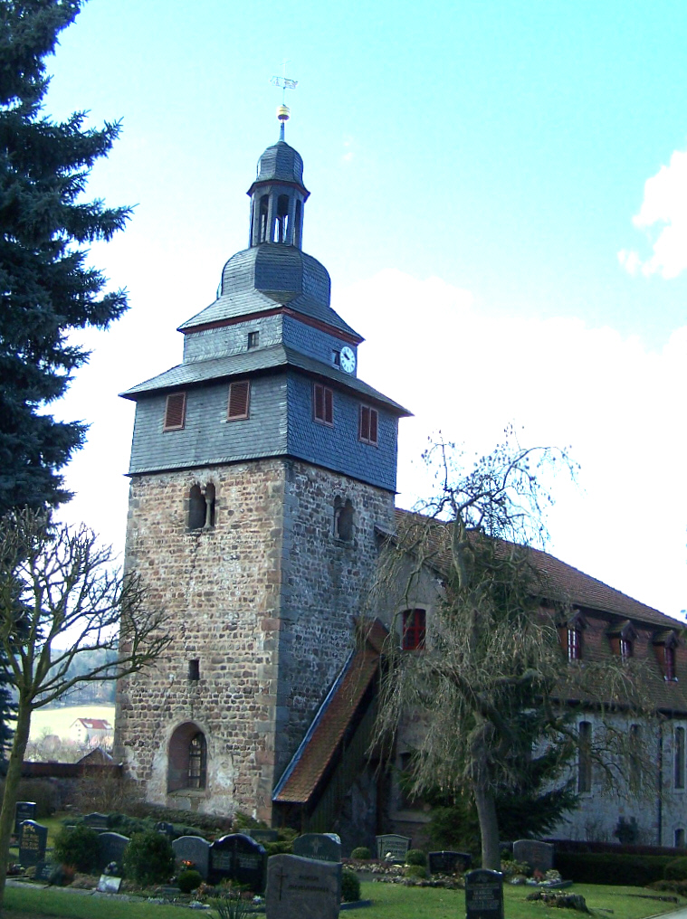 The church in Stadtlengsfeld, seen from cemetery.